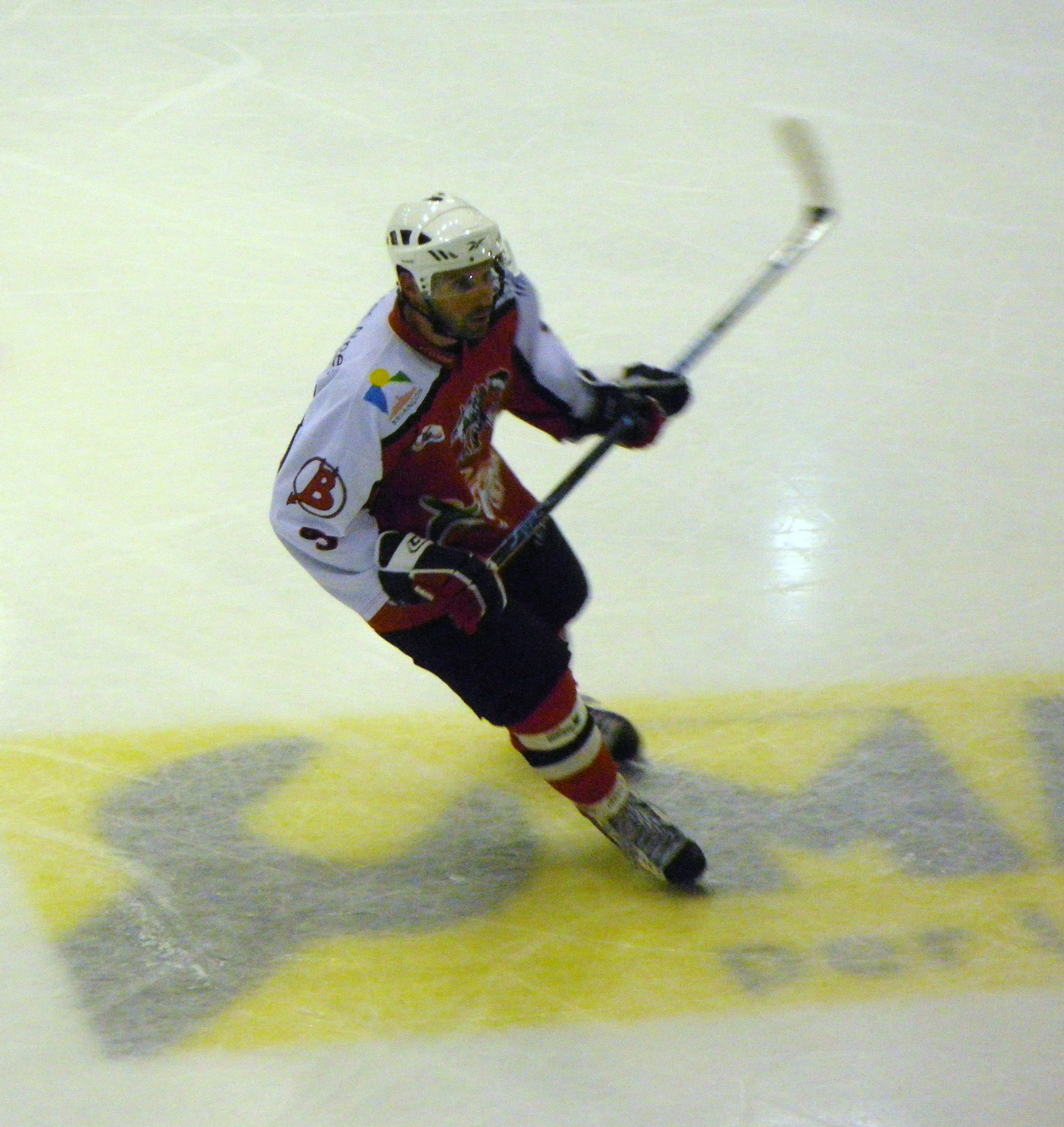 Viktor Szélig, hungarian ice hockey player with Diables Rouges de Briançon